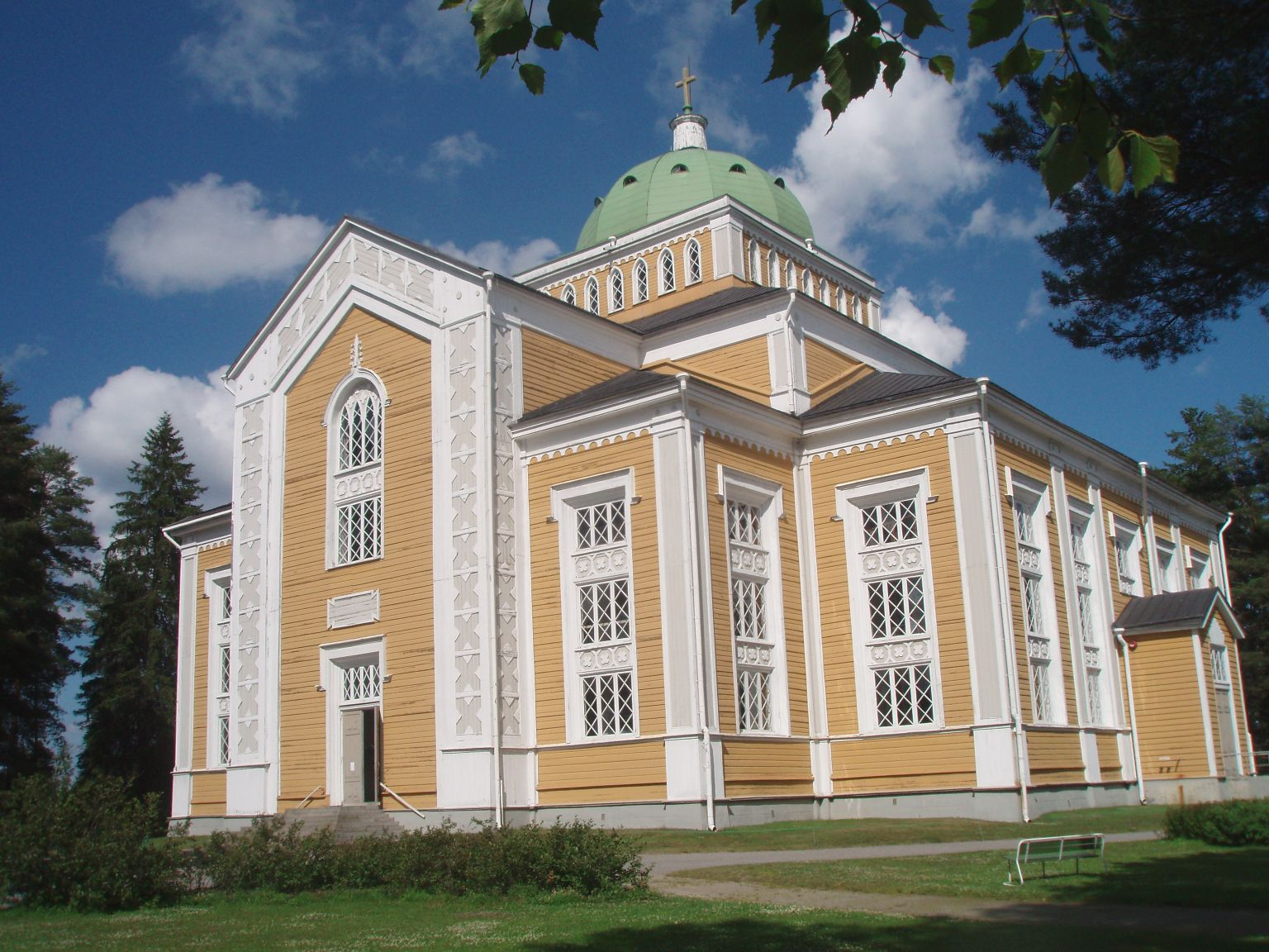 Kerimäki wooden church, located in Kerimäki, Finland, exterior south side